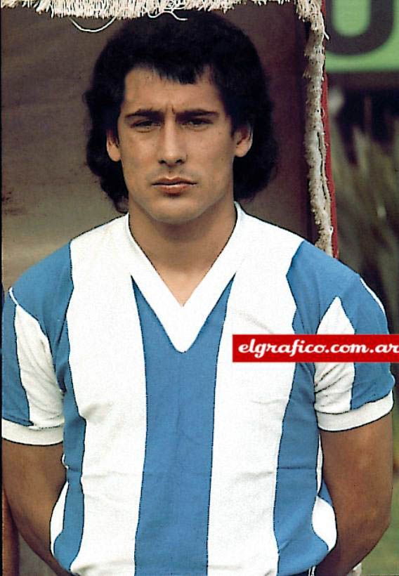 Juan J. López with the Argentina national team.